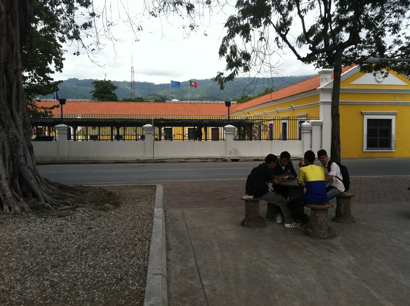 Europe house in Dili